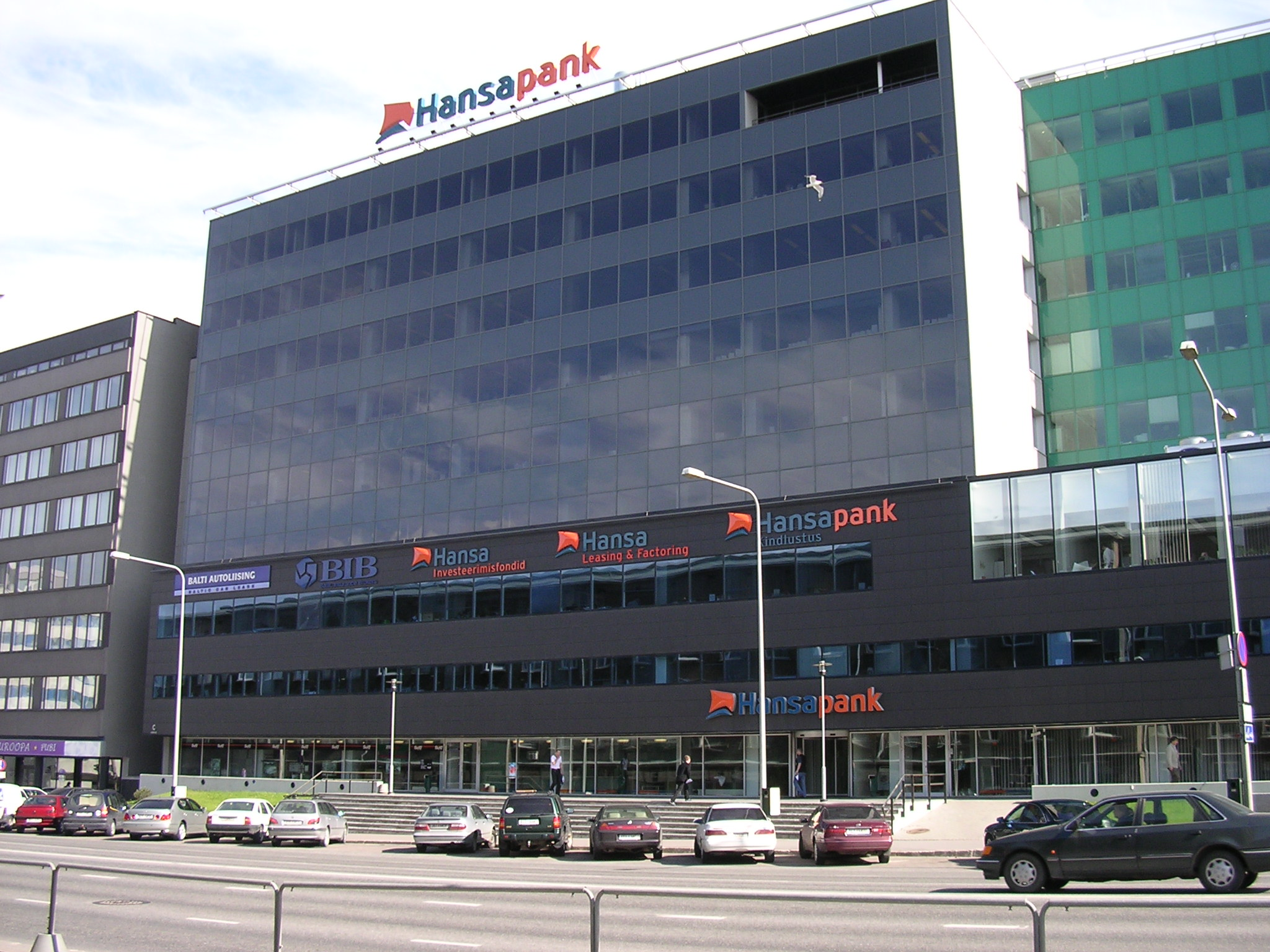 Hansapank headquarters